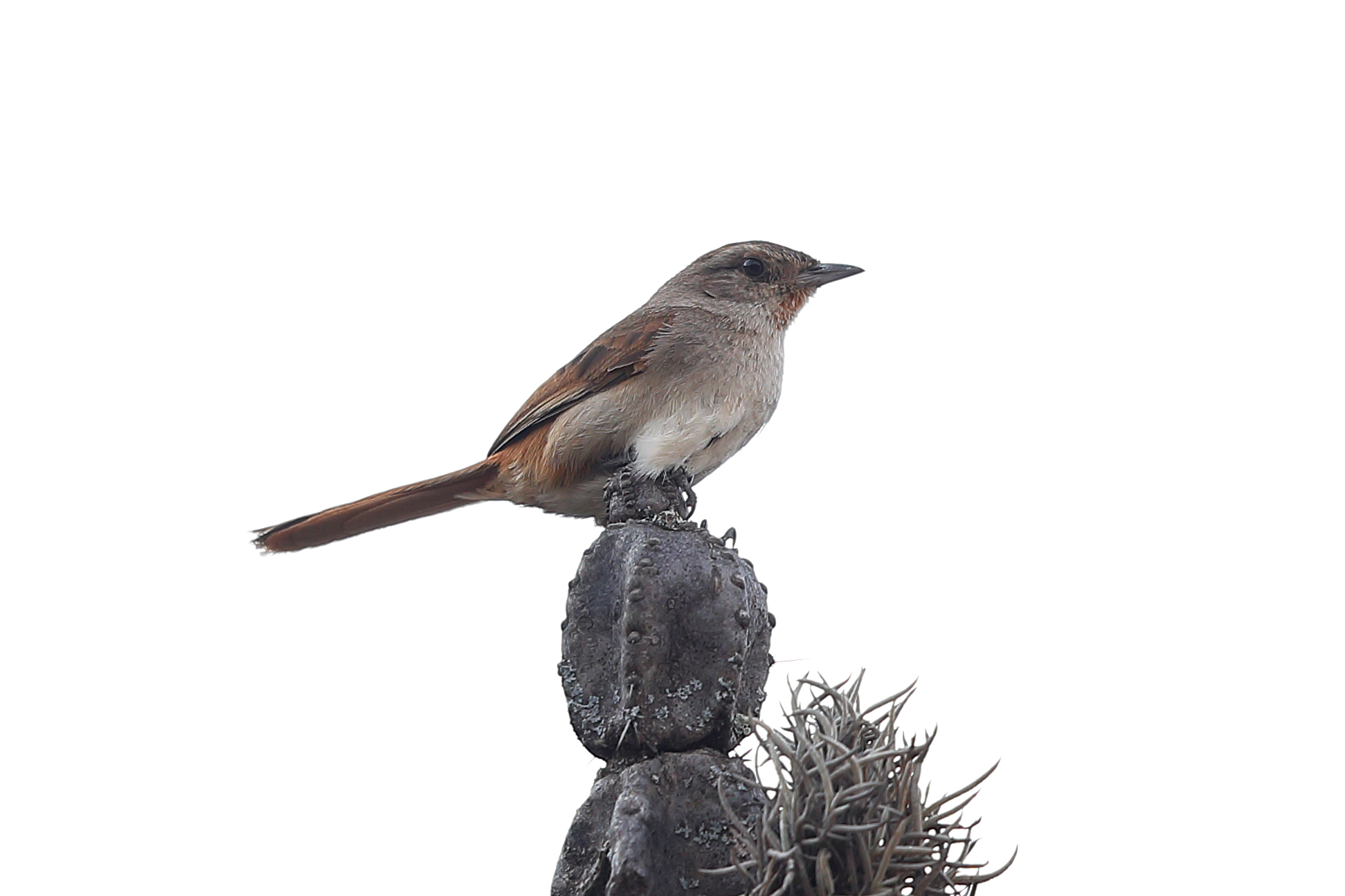 Huancavelica Canastero; Tocash [2375m], Áncash, Peru